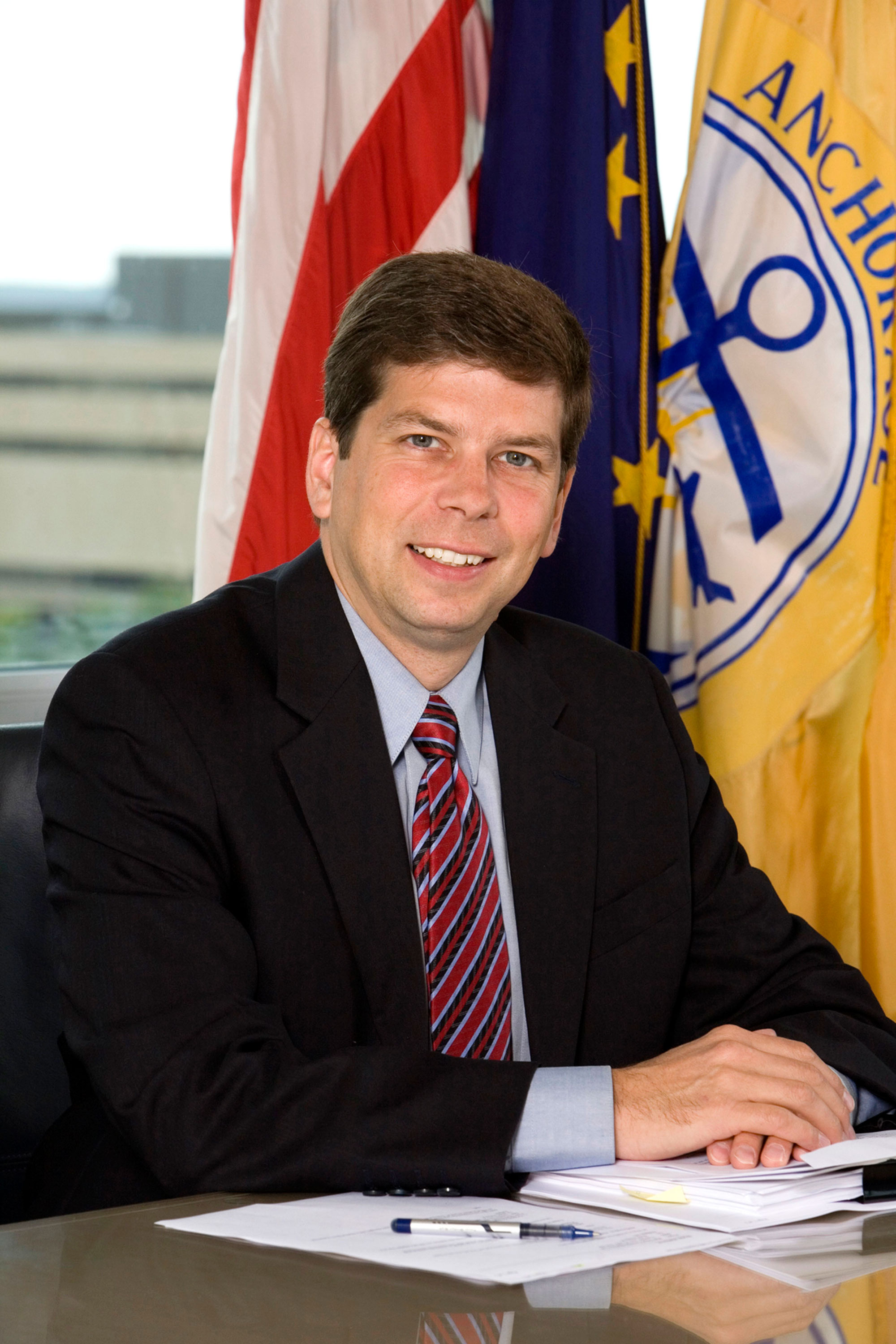 Mark Begich at his desk during his tenure as Mayor of Anchorage, taken sometime around August 2008. The picture was for a promotion for Anchorage citizens to consider supporting the National Guard.